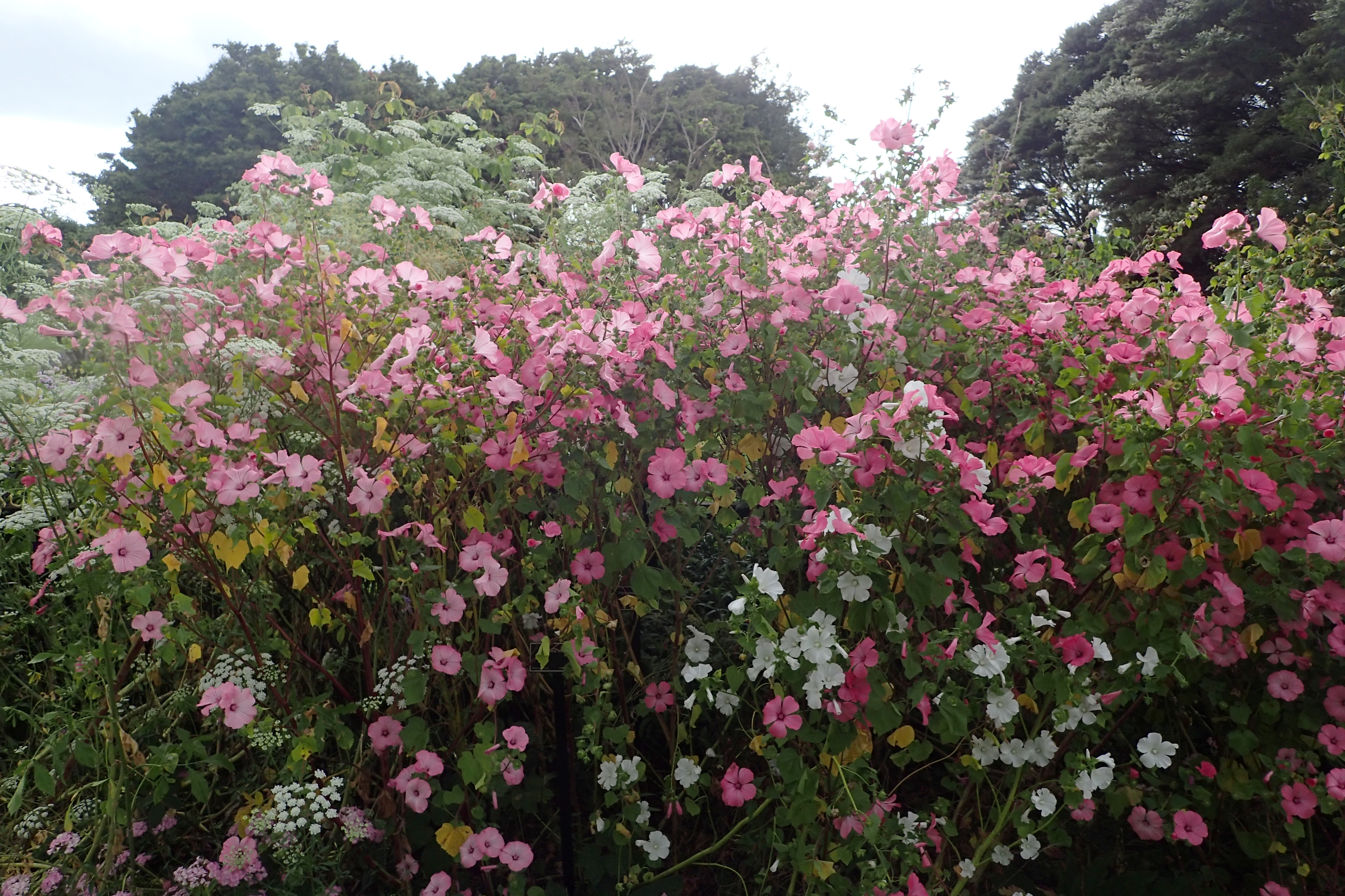 Lavatera trimestris in Auckland Botanic Gardens